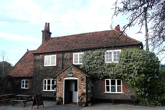 The Green Dragon Village local in Flaunden with a quirky dragon in the back garden.